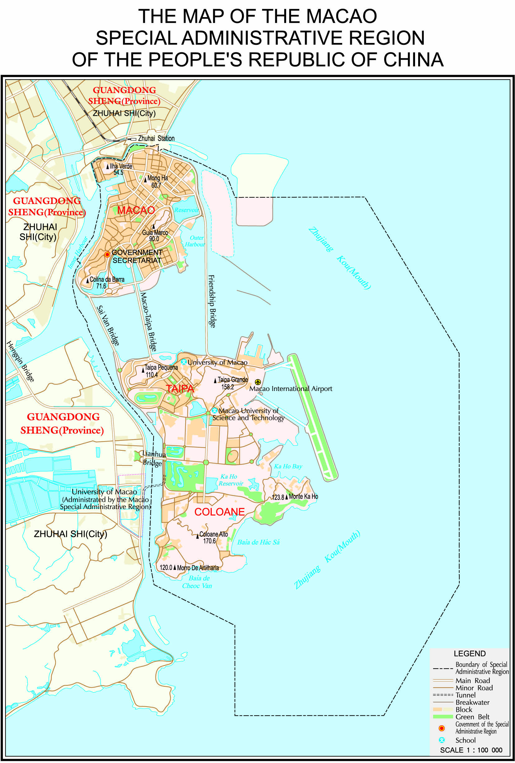 The map of the Macao Special Administrative Region (Macao SAR) of the People's Republic of China (English version), issued by the State Council of the People's Republic of China on December 20, 2015. From the Order No. 665 of the State Council, People's Republic of China.